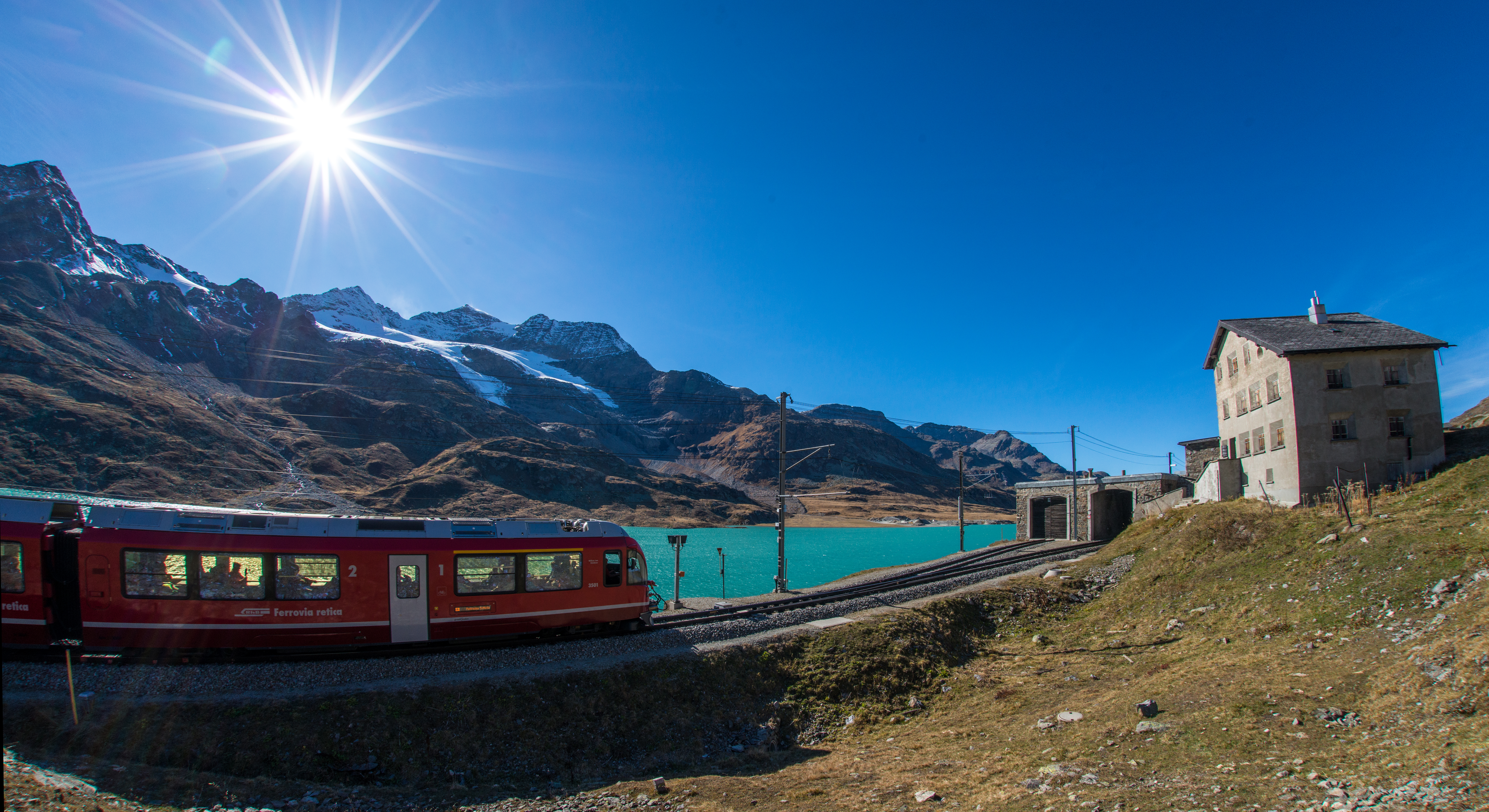 The approach to Ospizio Bernina railway station from the south. The right hand line is the through line into the station. Behind the closed door to the left is an indoor turntable used for turning snowplows.